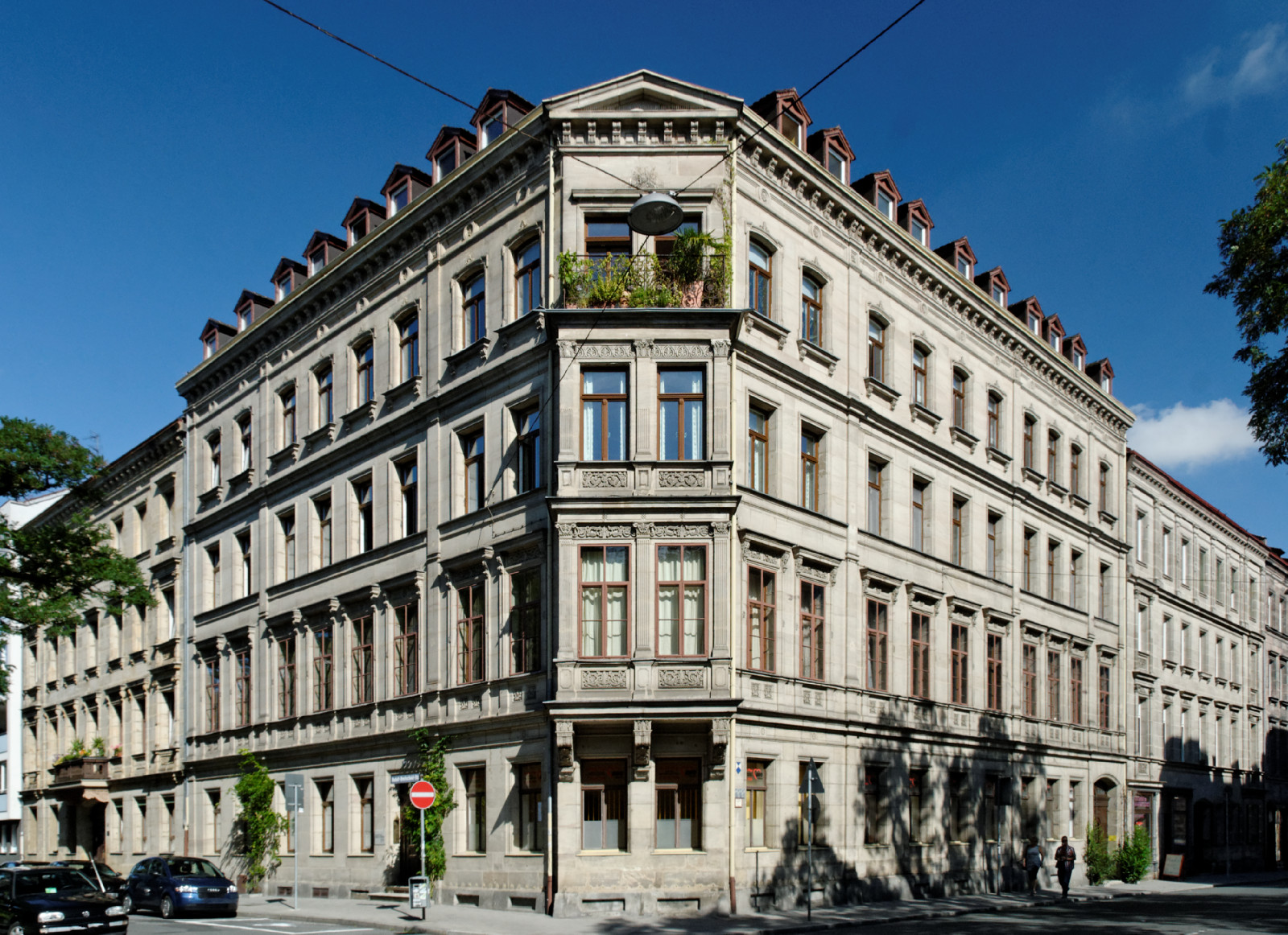 House Rudolf-Breitscheid-Straße 51 in Fürth, Germany This is a photograph of an architectural monument.It is on the list of cultural monuments of Fürth